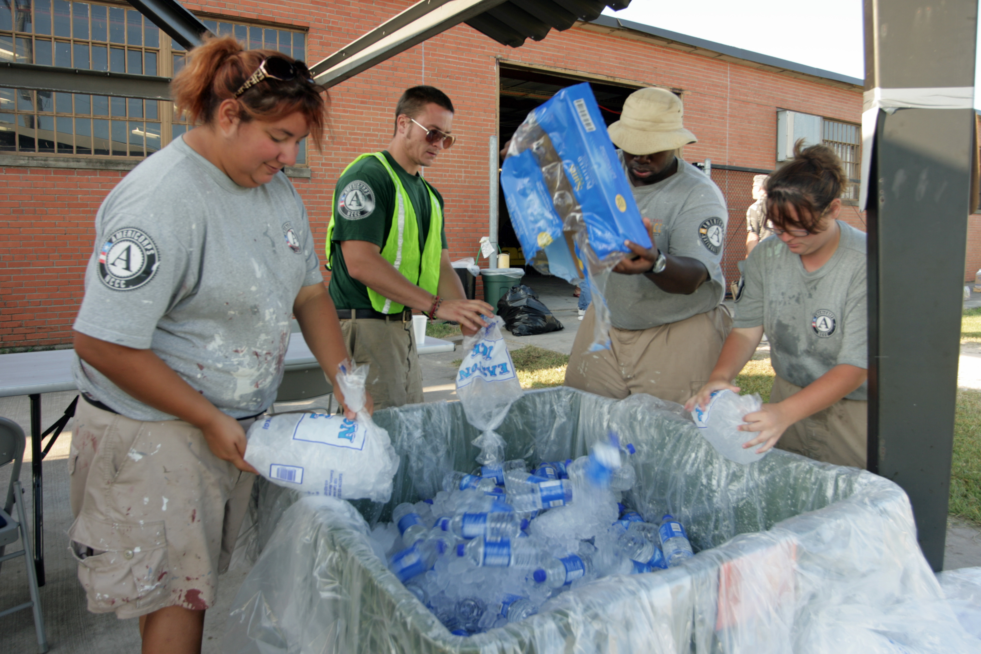 Houston, TX, September 23, 2008 -- Americorp students fill a large tub with water and ice to for applicants at the Disaster Recovery Center on Ellington Air National Guard Base. Conditions in Texas can be brutal even in late September, so FEMA takes measures to keep the applicants from overheating. Photo by Greg Henshall / FEMA